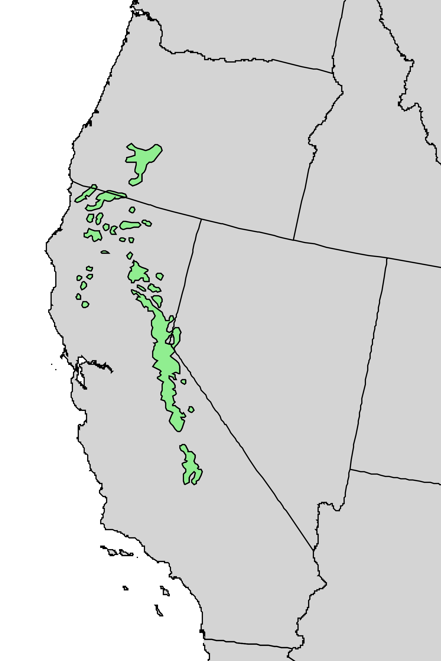 Natural distribution map for Abies magnifica